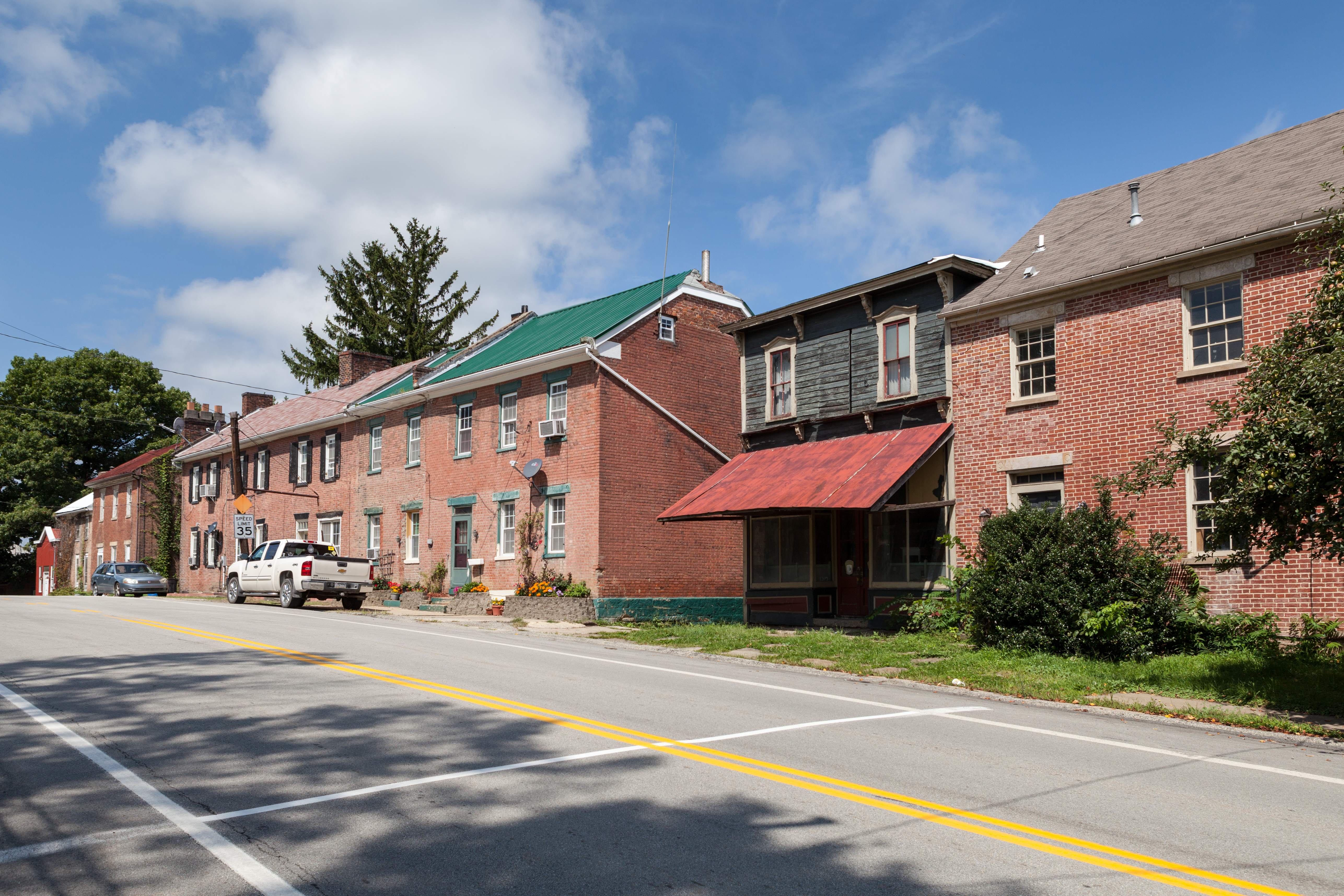 West Middletown Historic District, looking west near 12 E Main St. The district is an example of a 19th century rural residential/business community in western Pennsylvania.